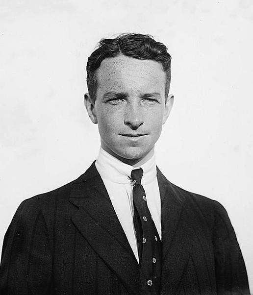 Tom Sopwith (LOC) Bain News Service,, publisher. Thomas Sopwith in 1911 [between ca. 1910 and ca. 1915] 1 negative : glass ; 5 x 7 in. or smaller. Notes: Title from unverified data provided by the Bain News Service on the negatives or caption cards. Forms part of: George Grantham Bain Collection (Library of Congress). Format: Glass negatives. Repository: Library of Congress, Prints and Photographs Division, Washington, D.C. 20540 USA, General information about the Bain Collection is available at Persistent URL: Call Number: LC-B2- 2274-3